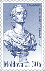 Stamp of Moldova